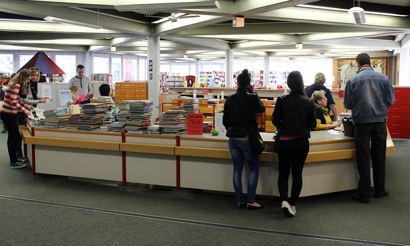 The public library of Dorsten